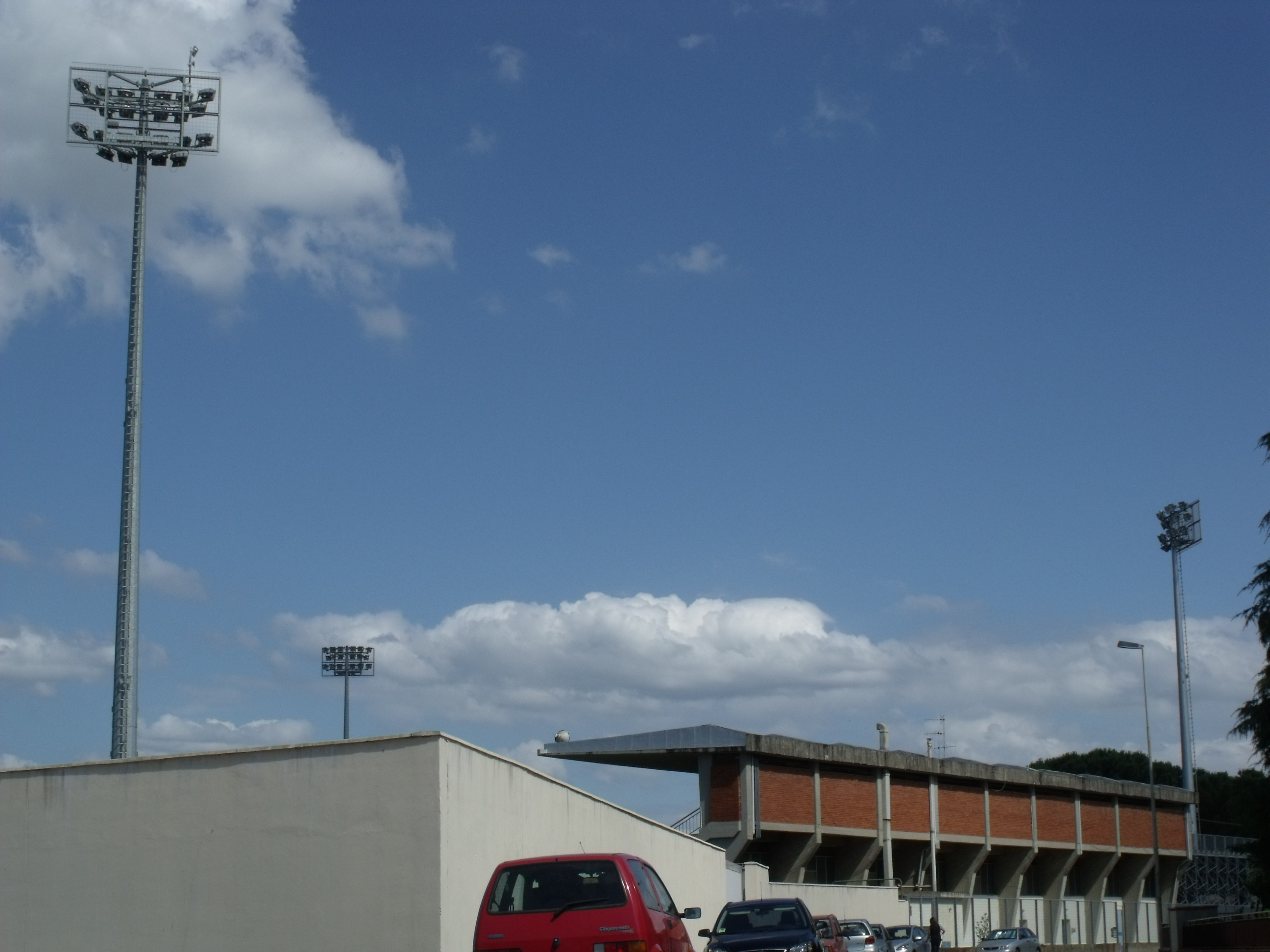 Stadium Goffredo del Buffa in Figline Valdarno, Province of Florence, Tuscany, Italy